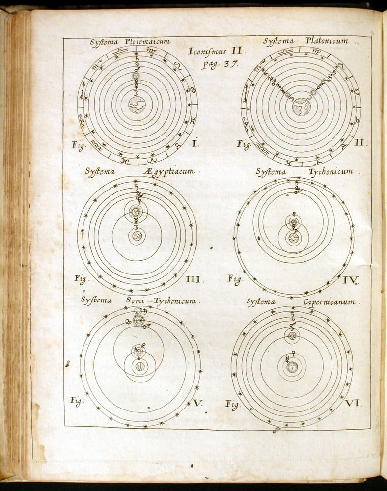 Athasius Kircher, Iter extaticum coeleste (Herbipoli, 1660)